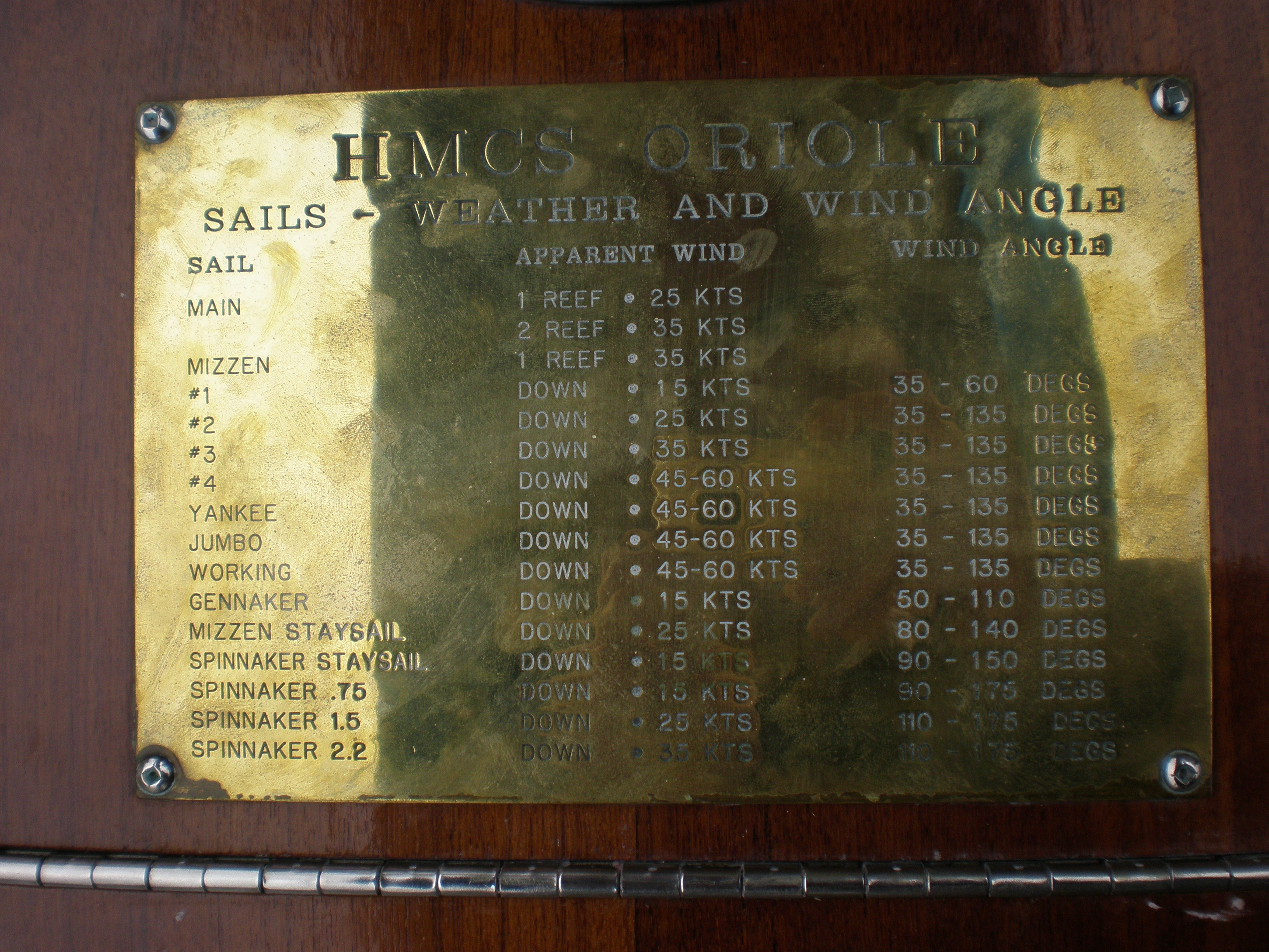 A reference plaque for handling the sails of the HMCS Oriole (KC 480), seen while the ship was docked during the Festival of Sail San Francisco 2008.